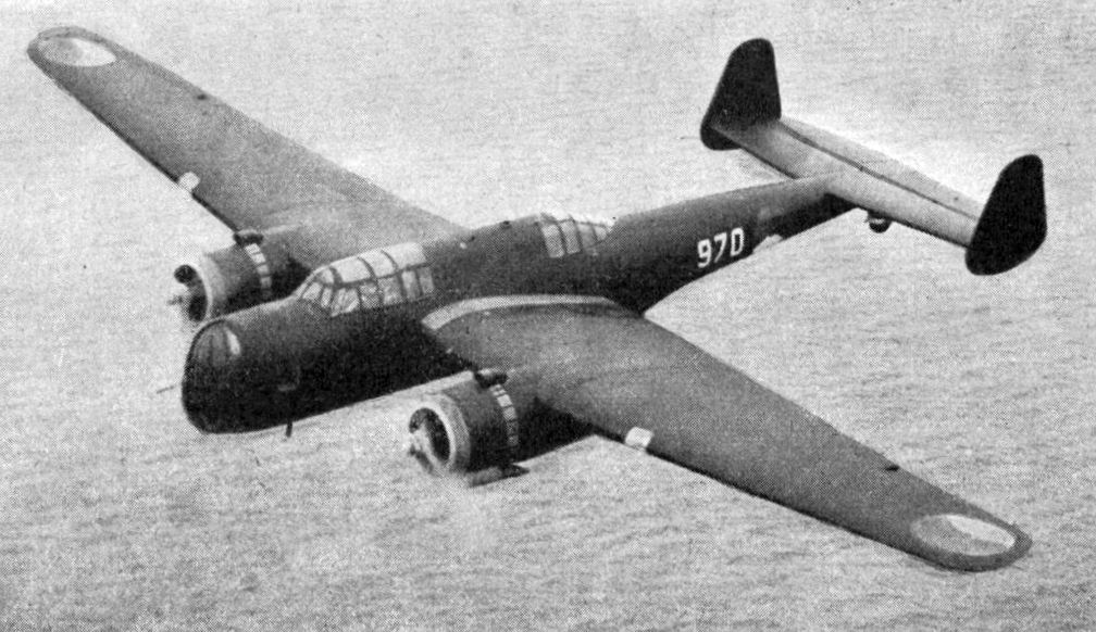 Fokker T.IX photo from L'Aerophile December 1939